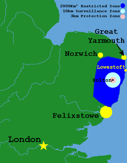 Map of the zones during Feb 2007 Avian Flu outbreak in Holton, Suffolk on the Bernard Matthews farm.